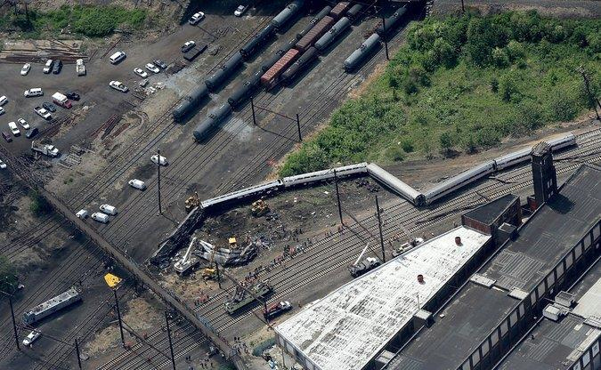 Overview of the derailed Amtrak train in Philadelphia, Pennsylvania in May 2015. (Original caption: "Train at point of rest following the derailment.")